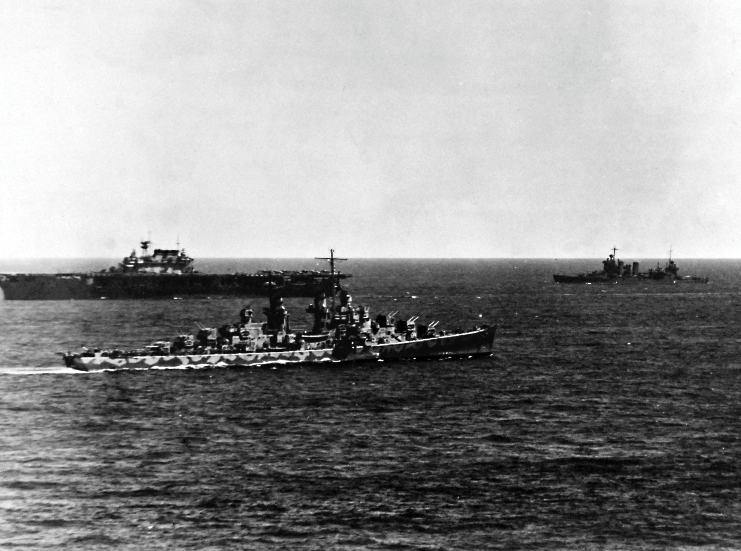 The U.S. Navy aircraft carrier USS Hornet (CV-8), the light anti-aircraft cruiser USS Atlanta (CL-51), and the heavy cruiser USS New Orleans (CA-32), right, following the Battle of Midway on 6 June 1942. The photo was taken as Atlanta came up to offer assistance to the destroyer USS Phelps (DD-360), which had broken down temporarily because of fuel shortage.